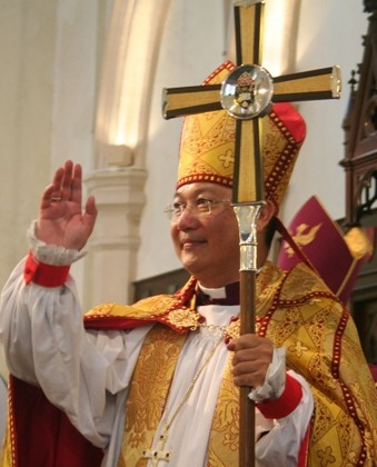 2nd Archbishop of Hong Kong